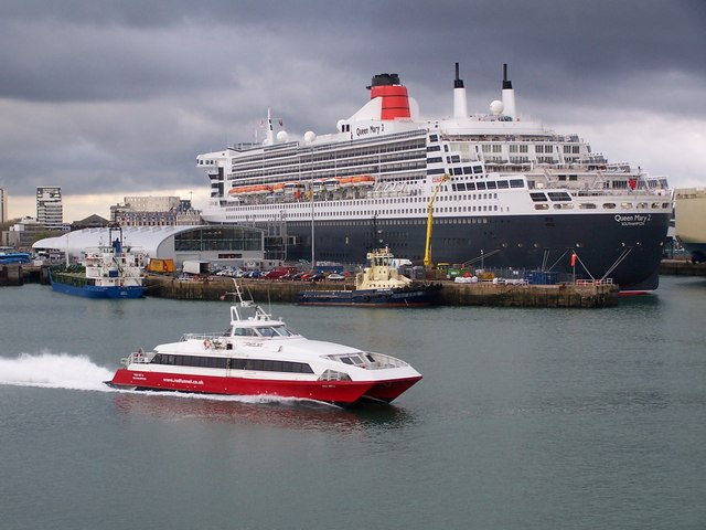 New Ocean Terminal with Queen Mary 2 The new terminal, opened May 2009, is built on the site of the 1950 Ocean Terminal which was demolished in 1983 - a cycle reflecting the demise of the old liners and the growth of the cruise industry. Here, Red Jet 3 en route to Cowes passes in front of the terminal while Queen Mary 2 is alongside.